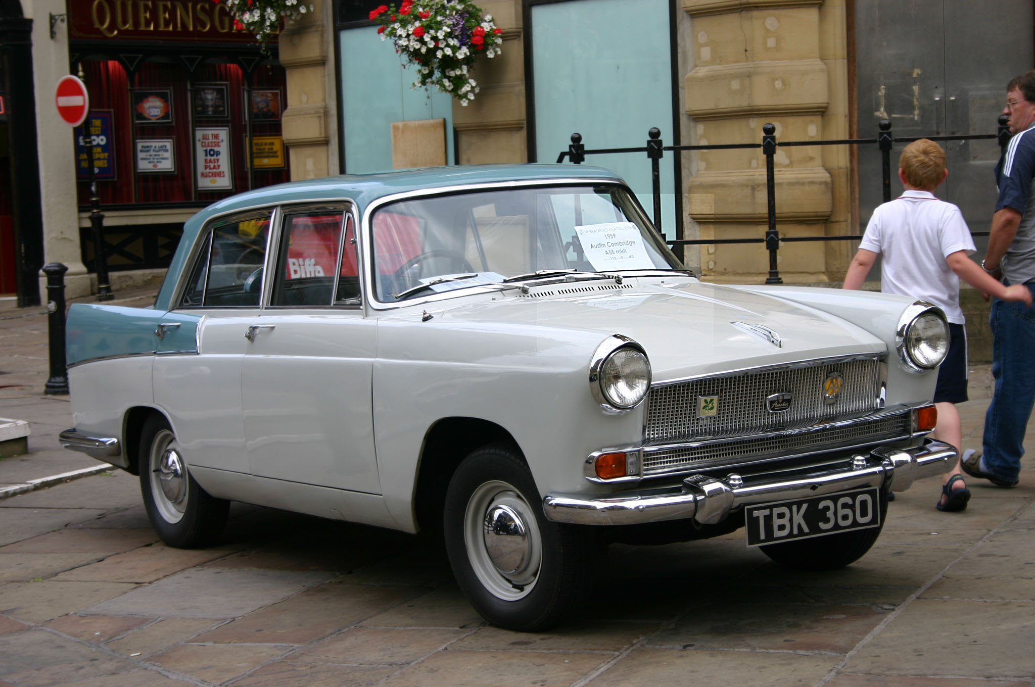 Austin A55 MkII Cambridge saloon